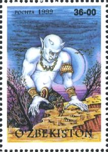 Djin Uzbek Tale "Badal Korachi" ('Three Brothers").